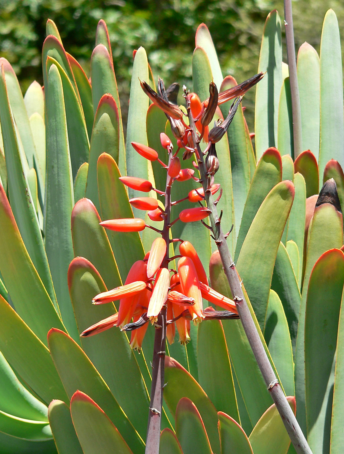 Aloe plicatilis at the University of California Botanical Garden, Berkeley, California